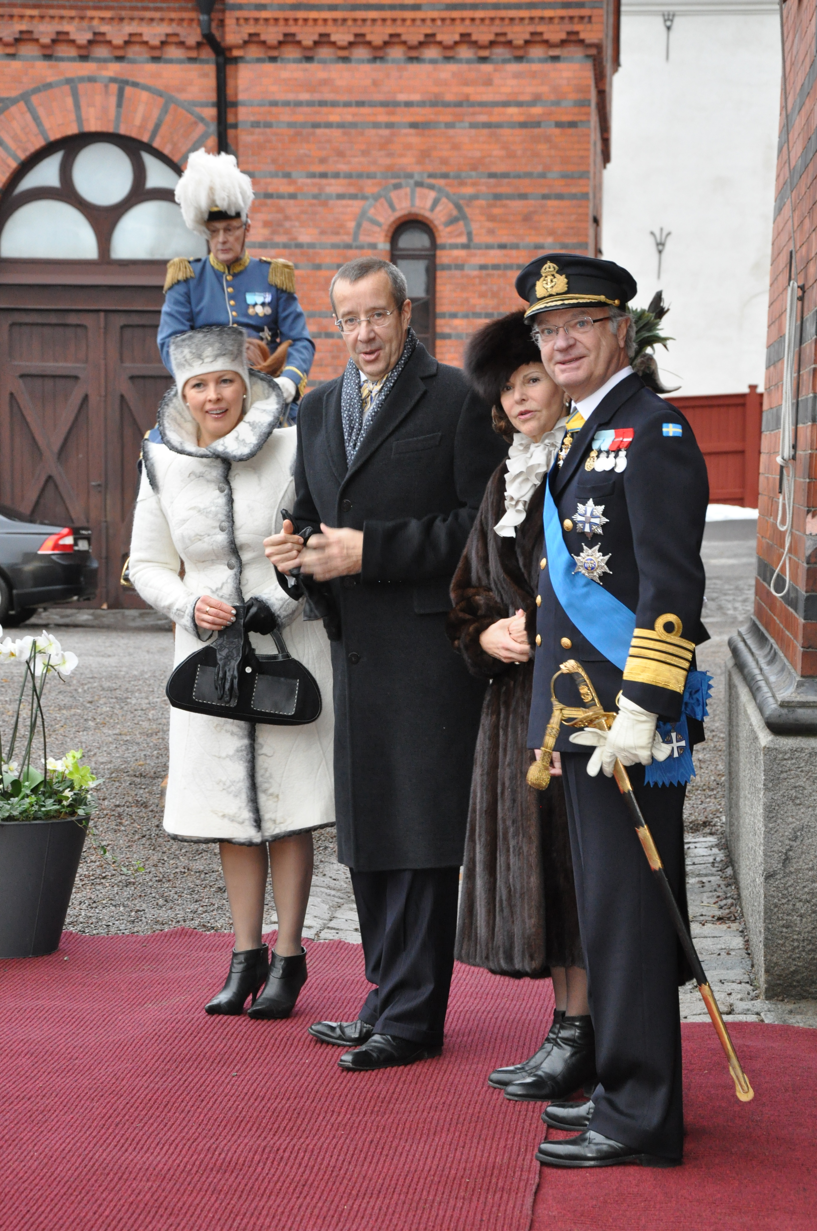 Evelin Ilves, Toomas Hendrik Ilves, Queen Silvia, King Carl Gustav